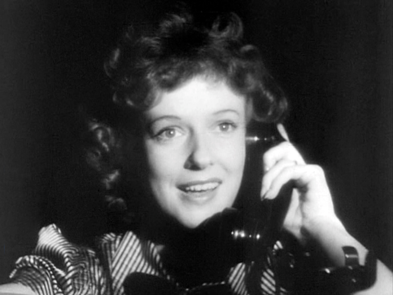 Screenshot of Dorothy Comingore from the Citizen Kane trailer